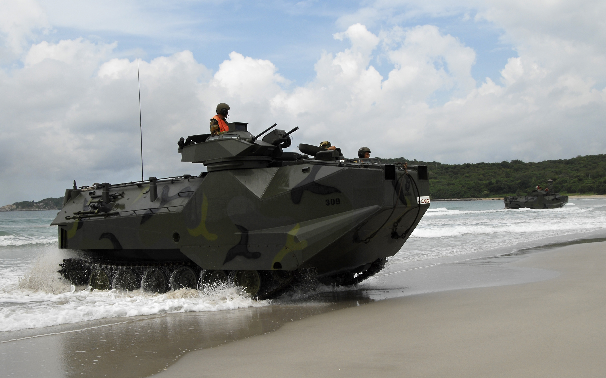 HATYAO BEACH, Thailand (May 11, 2007) - Royal Thai Marines storm ashore in an amphibious assault vehicle during an amphibious raid exercise at Hatyao Beach in Chon Buri, Thailand. The training was part of Cobra Gold 2007, an annual U.S. and Thai multilateral exercise designed to ensure regional peace and strengthen the ability of the Royal Thai armed forces to defend Thailand or respond to regional contingencies. U.S. Marine Corps photo by Sgt. Ethan E. Rocke (RELEASED)